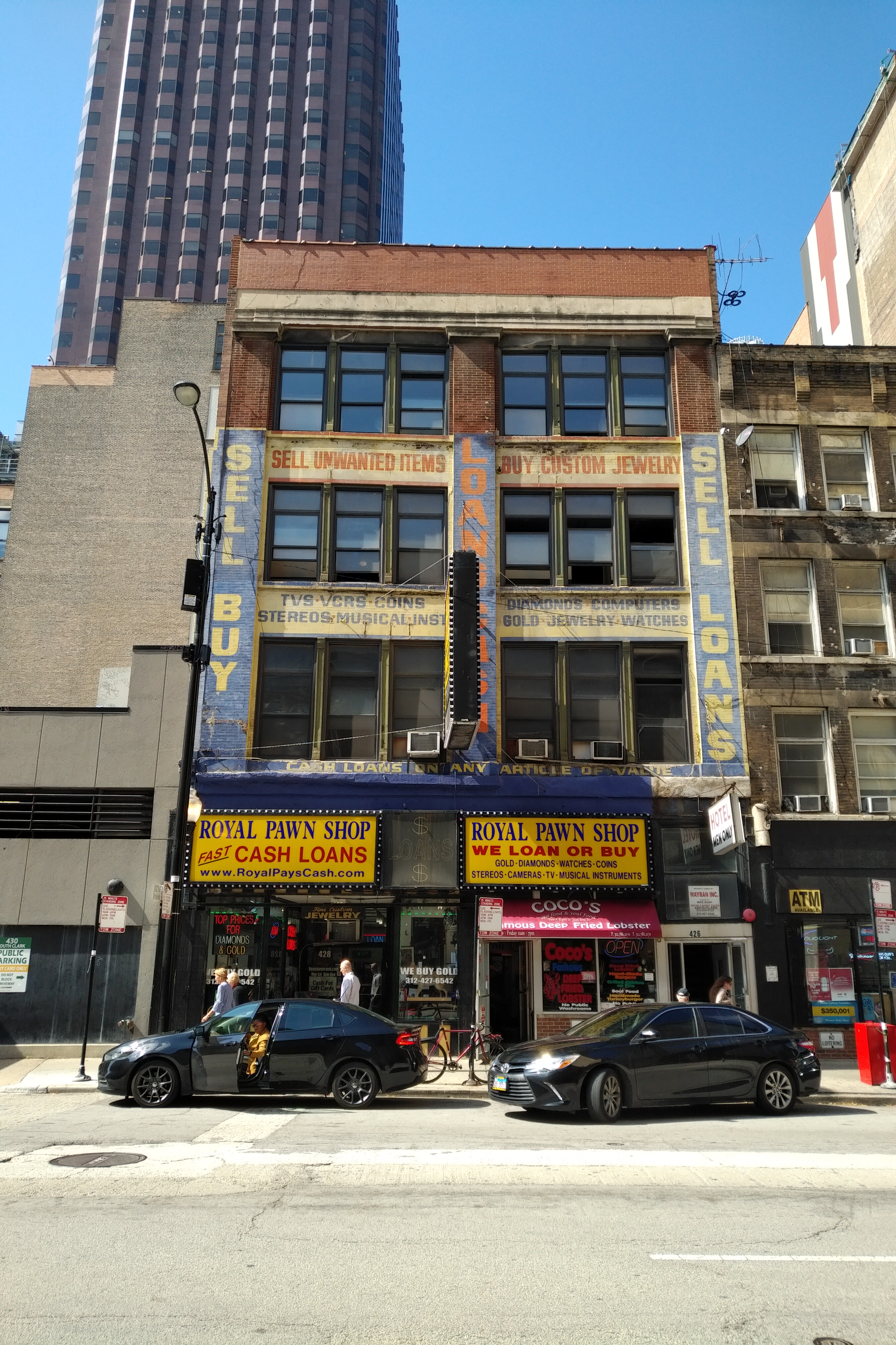 The building that housed Michael "Hinky Dink" Kenna's Workingmen's Exchange, in 2019.